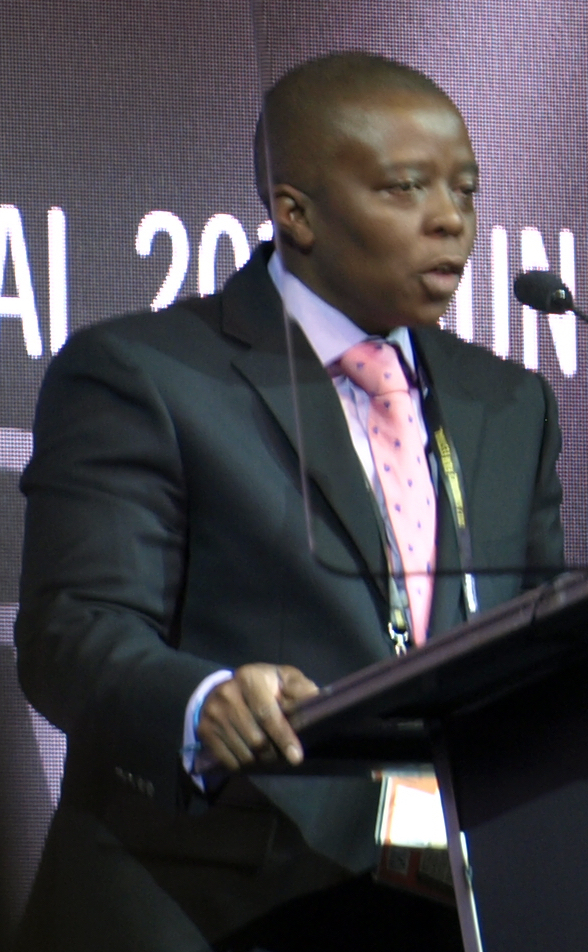 A U.S. Documentary Special Jury Award for Storytelling was presented to Yance Ford’s “Strong Island” at Sundance 2017, Park City UT